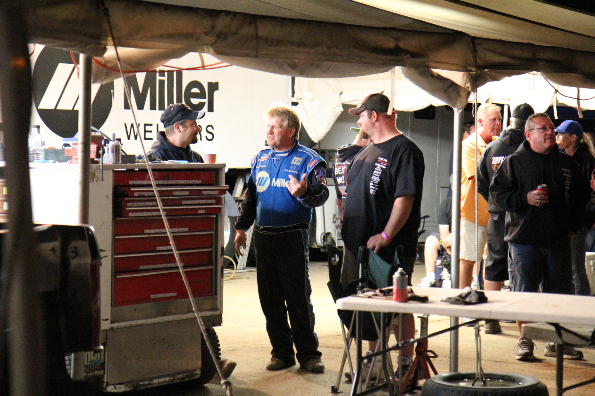 off-road race driver Scott Taylor (blue suit) talking in the pits after his final race at Crandon International Off-Road Raceway.